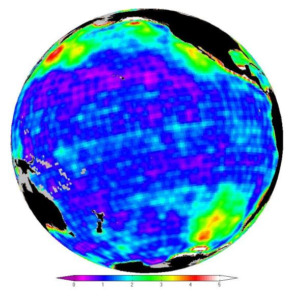 This map shows changes in ocean bottom pressure measured by NASA's Gravity Recovery and Climate Experiment (GRACE). Red shows where pressure varies by large amounts, blue where it changes very little.Just as knowing atmospheric pressure allows meteorologistss to predict winds and weather patterns, measurements of ocean bottom pressure provide oceanographers with fundamental information about currents and global circulation. They also hold clues to questions about sea level and climate. The pressure at the bottom of the ocean is determined by the amount of mass above it. Launched in 2002, the twin Grace satellites map Earth's gravity field from orbit 500 kilometers (310 miles) above the surface. They respond to how mass is distributed in the Earth and on Earth's surface -- the greater the mass in a given area, the stronger the pull of gravity from that area.